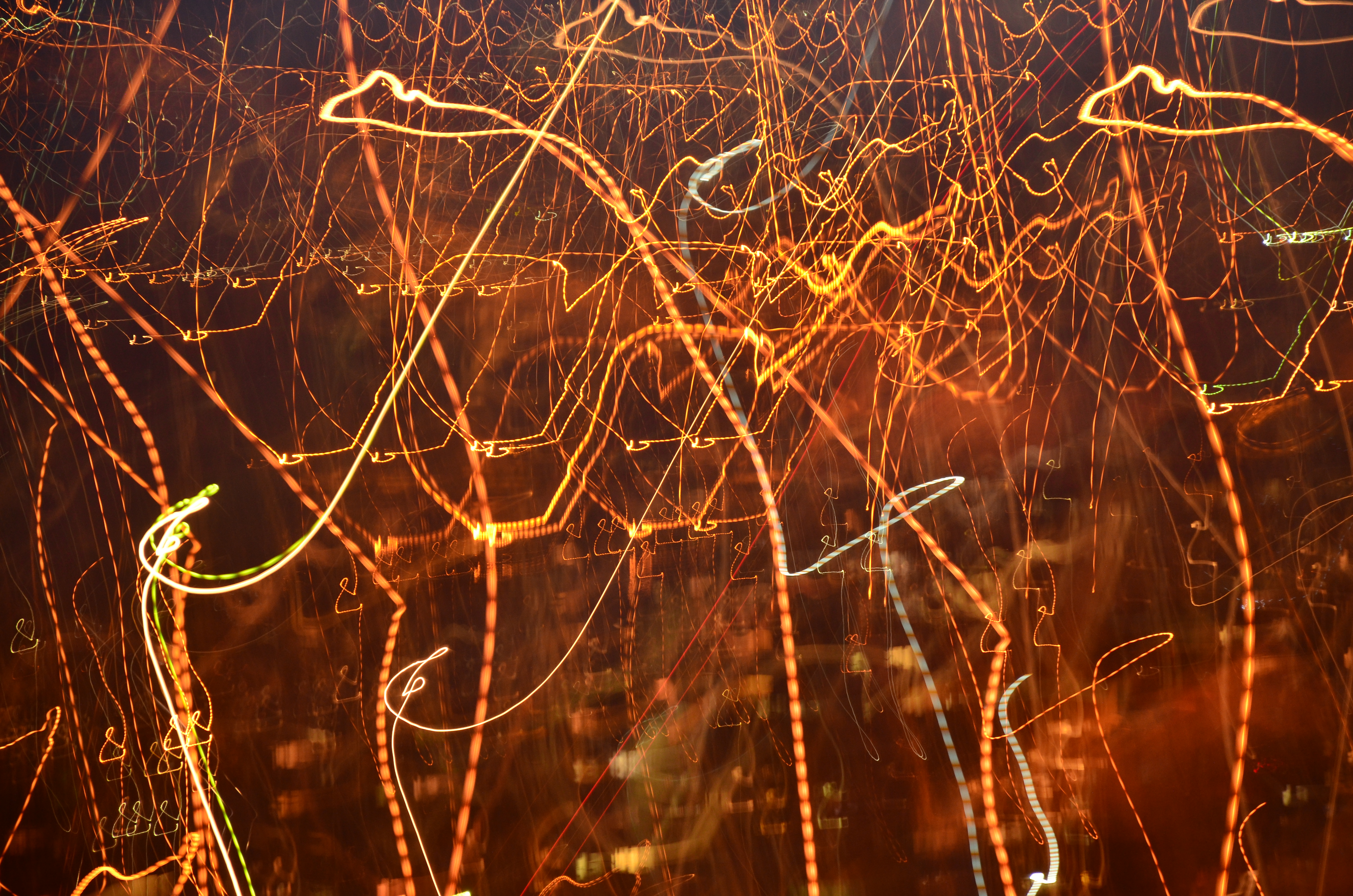 The camera needs time to perform exposure. This period of time when the light affects the light-sensitive material, called exposure. Exposure may be long and short. We see in the picture photographic effect Motion blur, that was achieved by chance. The camera was removed at a time when the device picture night city made with long exposure. We see the movement of the object relative to the static objects - buildings of the city and its night lights. Photo suited to illustrate articles about exposure in photography and image blur in photos.